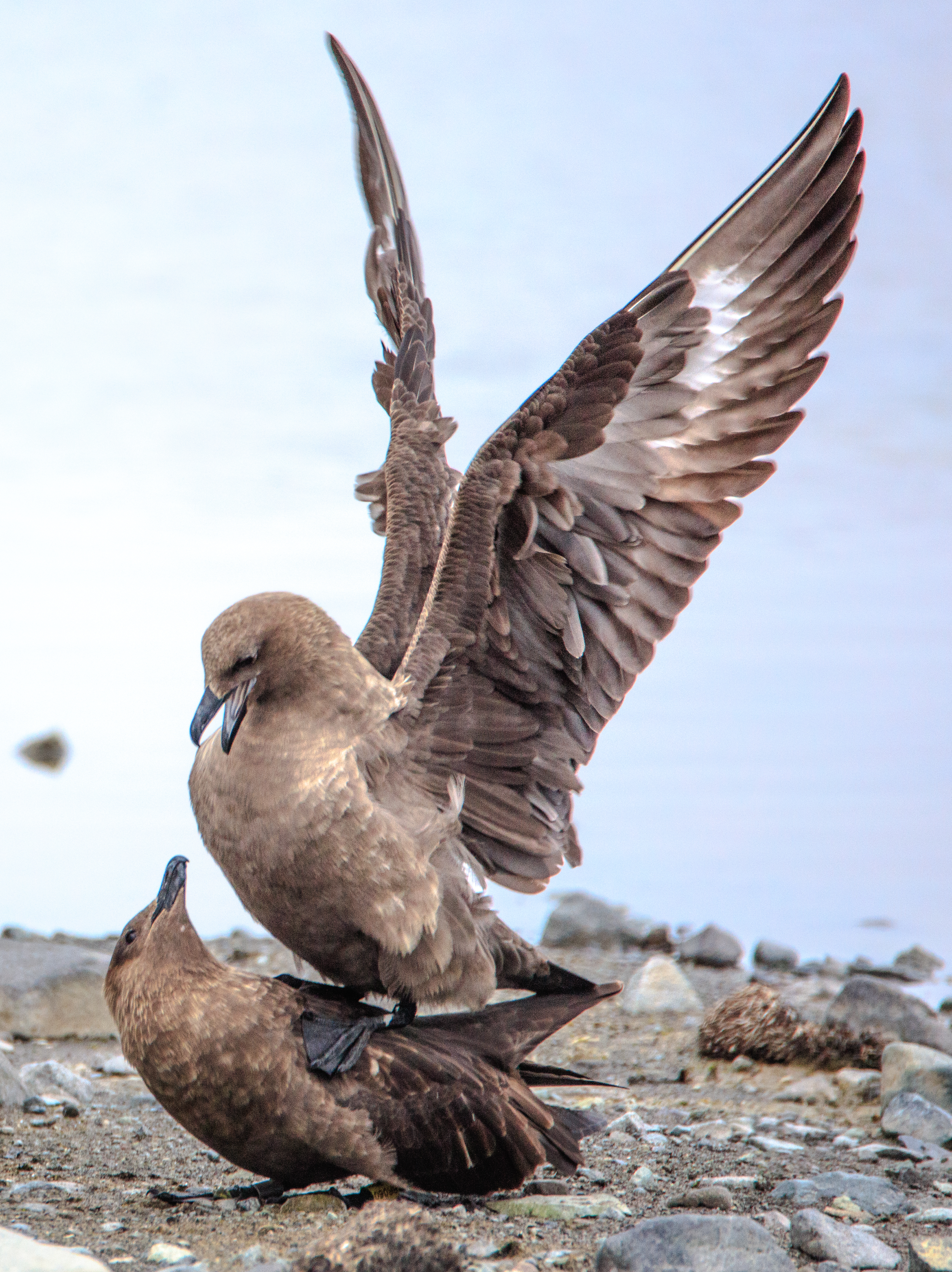 Brown Skua Catharacta antarctica, Turret Point on the S shore of King George Island, Antarctic Peninsula. Elaborate courtship & mating rituals.